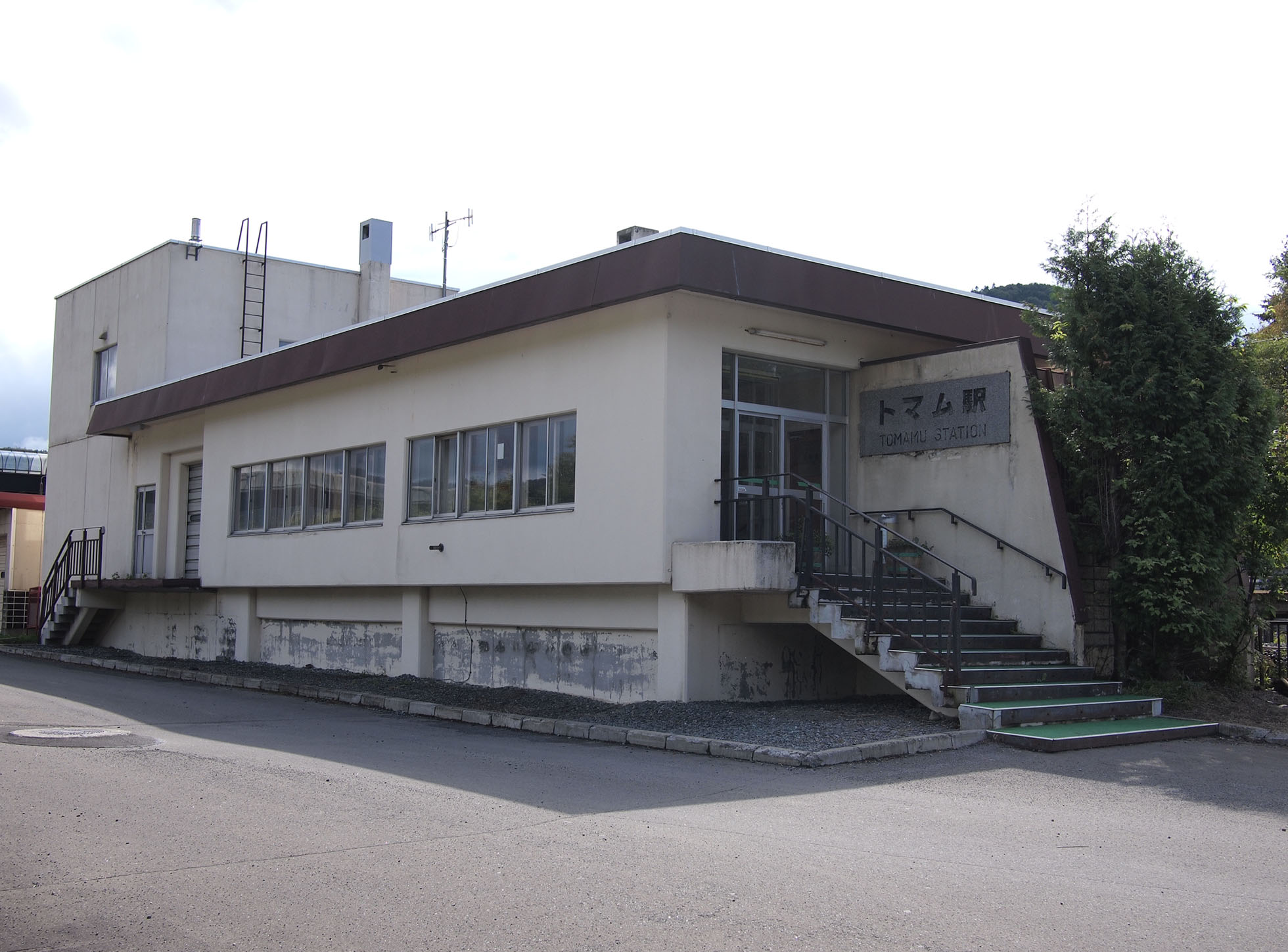 JR Hokkaido Tomamu station, Shimukappu, Hokkaido, Japan